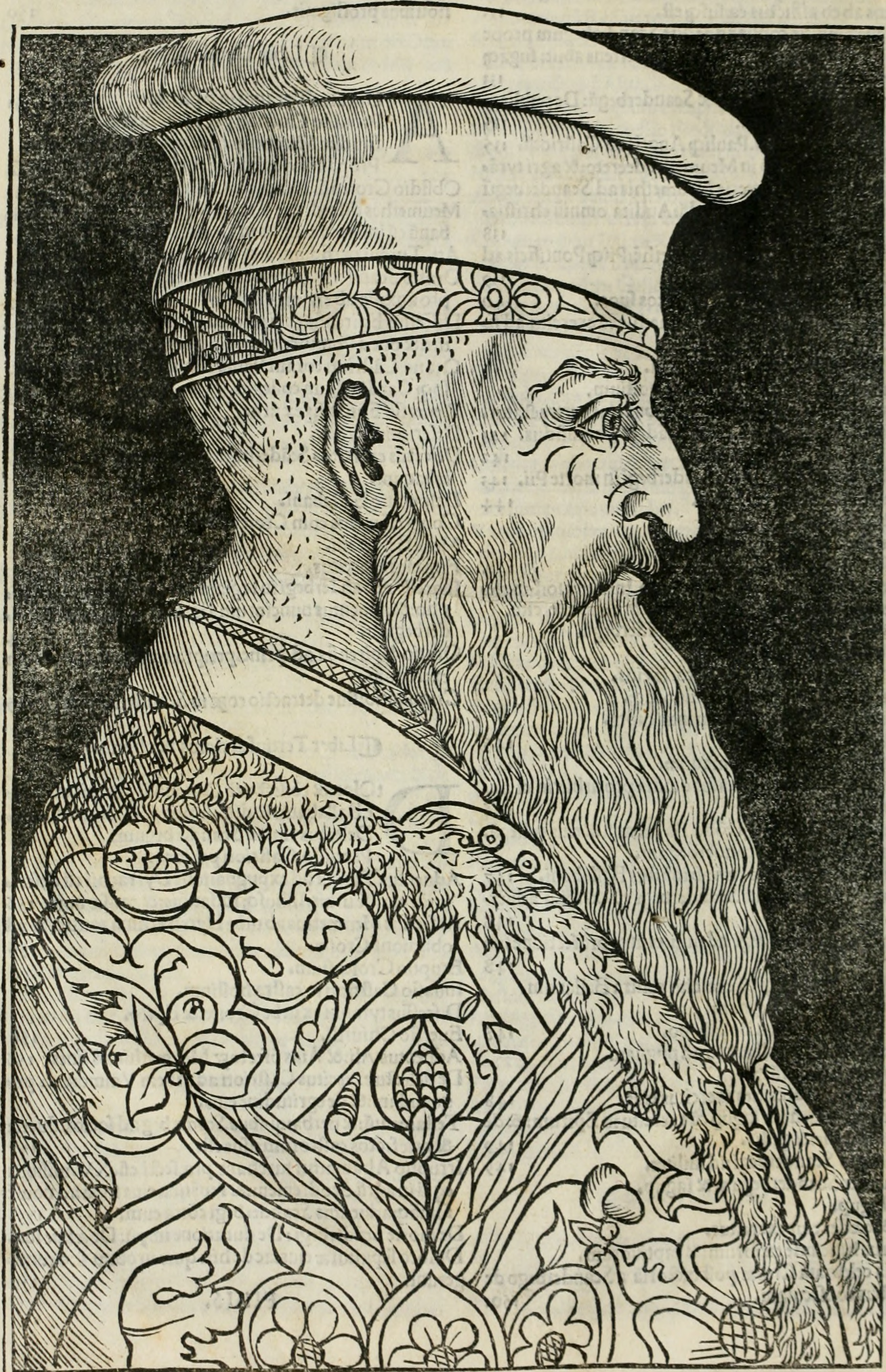 Title: Historia de uita et gestis Scanderbegi Epirotarum principis Year: 1508 (1500s) Authors: Barleti, Marin, ca. 1460-1512 or 13 Vitali, Bernardino dei, fl. 1494-1539, printer Subjects: Scanderbeg, 1405?-1468 Publisher: (Impressum Rome : Per B.V.) Text Appearing Before Image: acflfo cogc fn Scanderbegum» 15 $ f(^Liber Tertfufdedmus Kultfmus» DtOIoriSf c5flicftatio Ottomani pncfpis ex raor#cBallabanitacdilTolutioneobltdionisCroit*Dclcrtus eius in Scandcr bcgum.Prouifio Caftriotipcrloca.AduentusTy rani ad cxpugoatione Dyrrach ii cfi dcfcrf«ptioeeiufdeu»bisilllliufqjfijdati6is:Kcaufsenois* i^tfAbfceflTjs Mcumcthis ab urbe Dyrrhachina rc infcifta adobiidioneCroiac. 15$ Eruptio Croicniium.Inuaiio Caftriotiin caftra hoQium.Difccflus tyranniex urbe Croix:a^ Epiro.EueriioChiurili* 15« Aducntu! AIi:K AiaspfccaojcMcumcthisadfines. 156Dedclecflucxercitus Caftrioti ad utbcm Valmo§c cxpu*gnandam:^ dc cgritudinc eius.Tcftamcntfi:8£uerba:quibusScaderbcgadfocios:duces:Kprxfcdoscaftroruraufuicft. 157 Irruptio Ahamathii turchagc prasfccfli cfi.XV.milibu»cgtfl in agrfi Scodrcnfcm:8c rcpetinaeius fuga ad nomefama^aduentus Scandeibcgicotra eura. 159. DemorteScadcrbcgi: Dcdurationcimpii: Deztatcfua*DcIocofcpulturxcfus:acdchis:qua:in obitu ftiocontiogcrunt, IJ9 FINIS* ^- Text Appearing After Image: .miSKMOEvscsigi^Erawa^^ MAR.INI BAR.LETri SCODRENSIS DE VITA ET REBVSGESTIS SCANDERBEGI PRiE/ CLARISSIMI EPIROTARVM PRIN/ CIPIS AD DONFERANDVM GASTRIOTVM EIVS NEPOTEM LIBER PRIMVS. PRyEFATlO.historiadeuitaet00barl